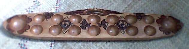 Low web cam capture of a sungka, without the sigay. JPEG format at 631 x 165 pixels. Tagalog: Sungka na kinuhanan ng web camera, at wala ang sigay. JPEG ang anyo sa laking 631 x 165 pixel.